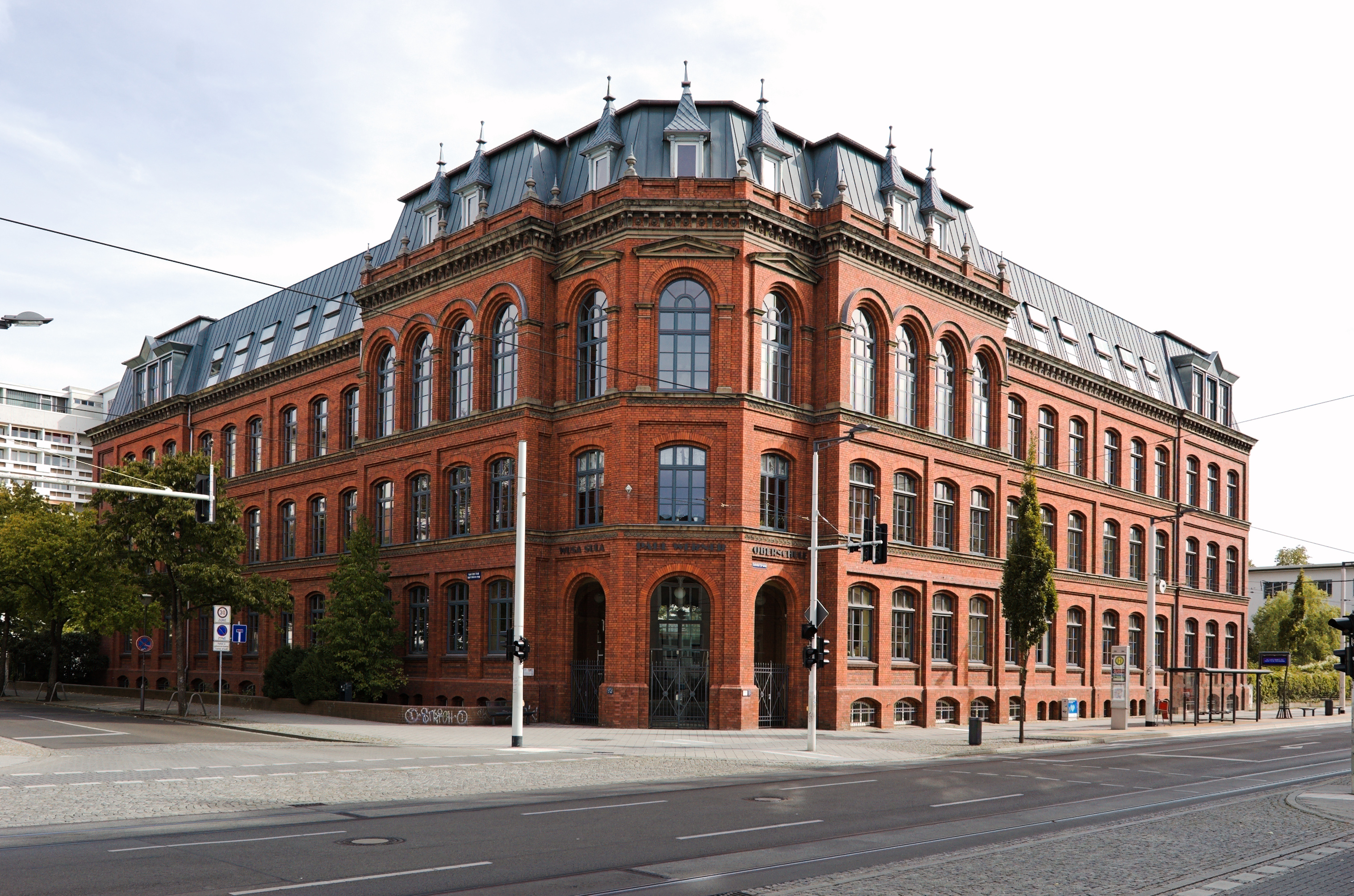 Secondary school Paul-Werner-Oberschule, Bahnhofstraße 11 in Cottbus-Mitte.